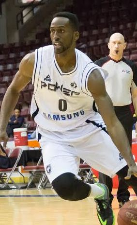 Mississauga Power guard Warren Ward drives to the basket against the London Lightning in 2015.